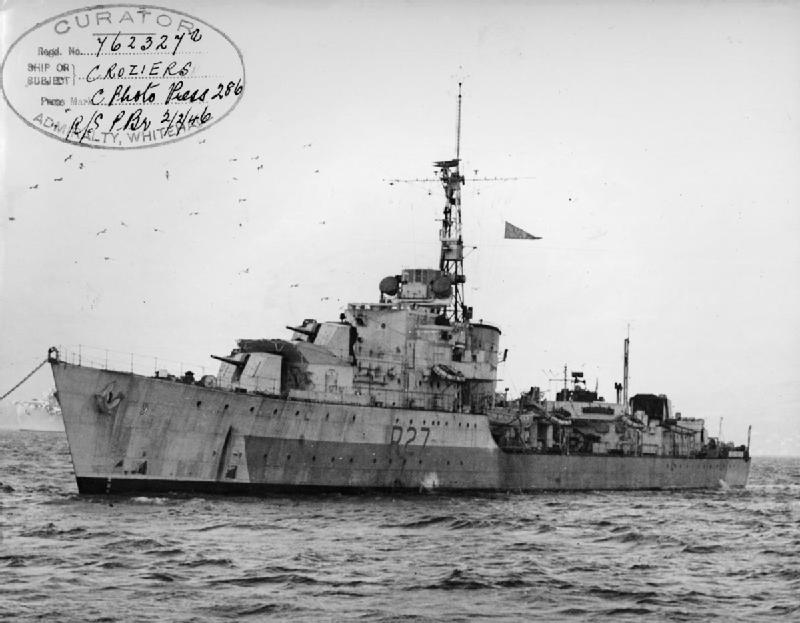 Photograph of British C class destroyer HMS Croziers.